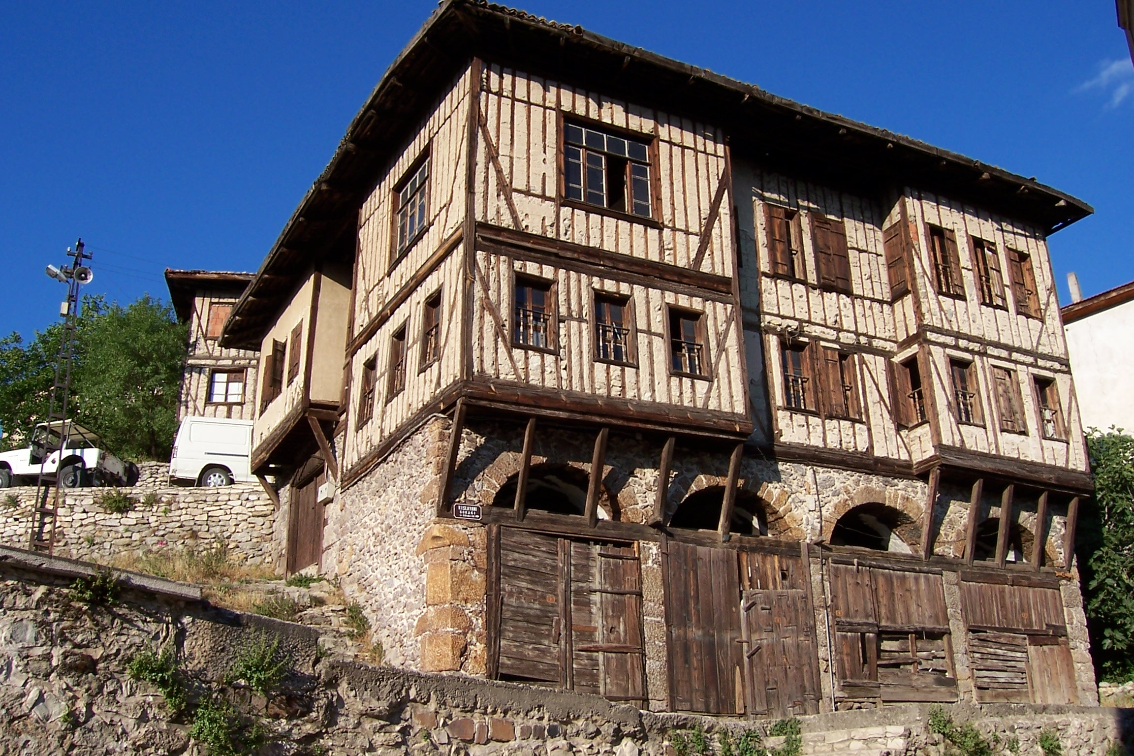 Traditional houses of Safranbolu, Karabük, Turkey